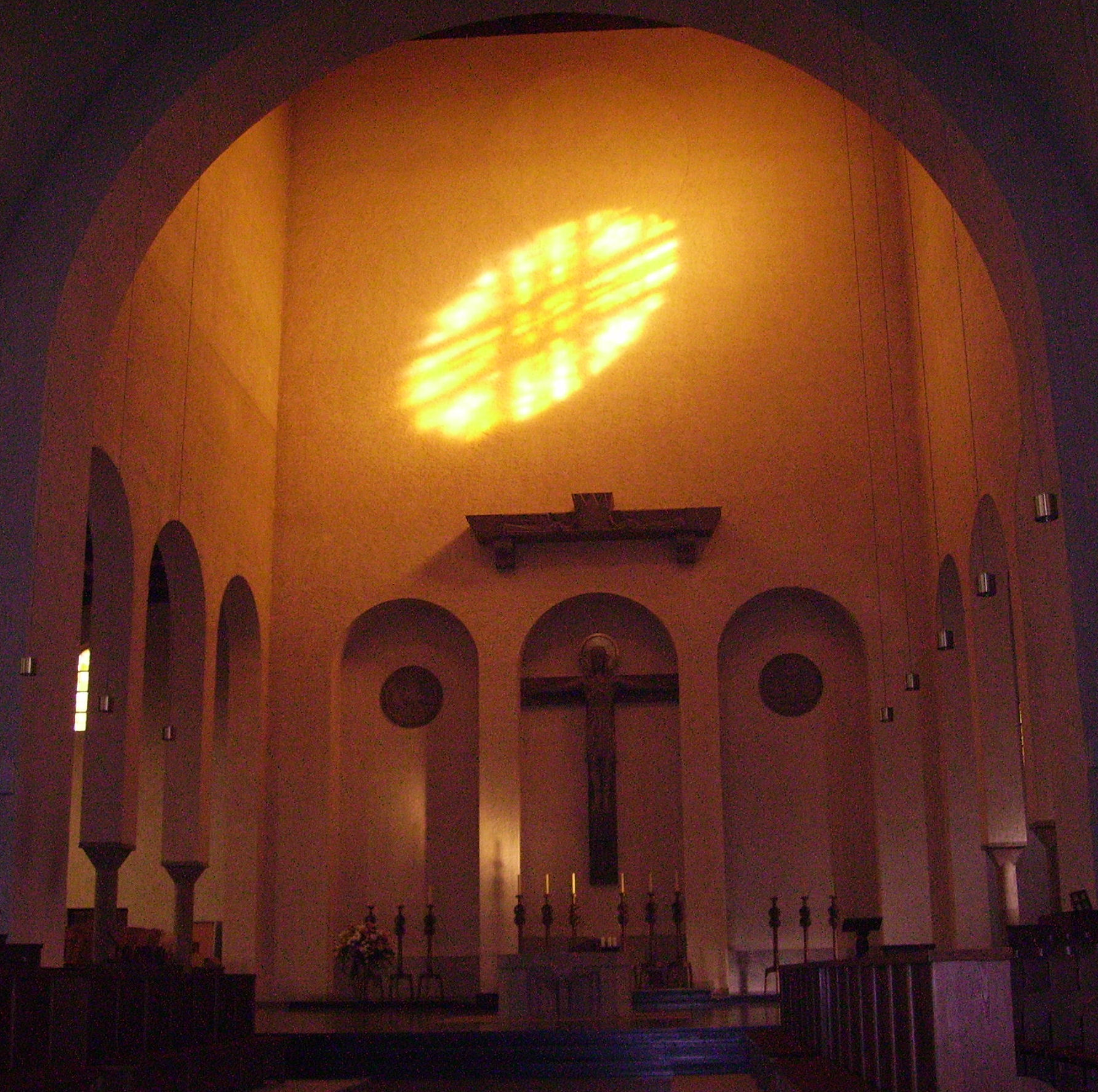 abbey church of Münsterschwarzach, Germany